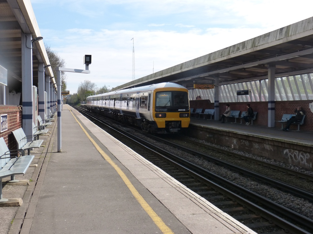 A London bound Networker arrives at Eltham station on a lovely Saturday